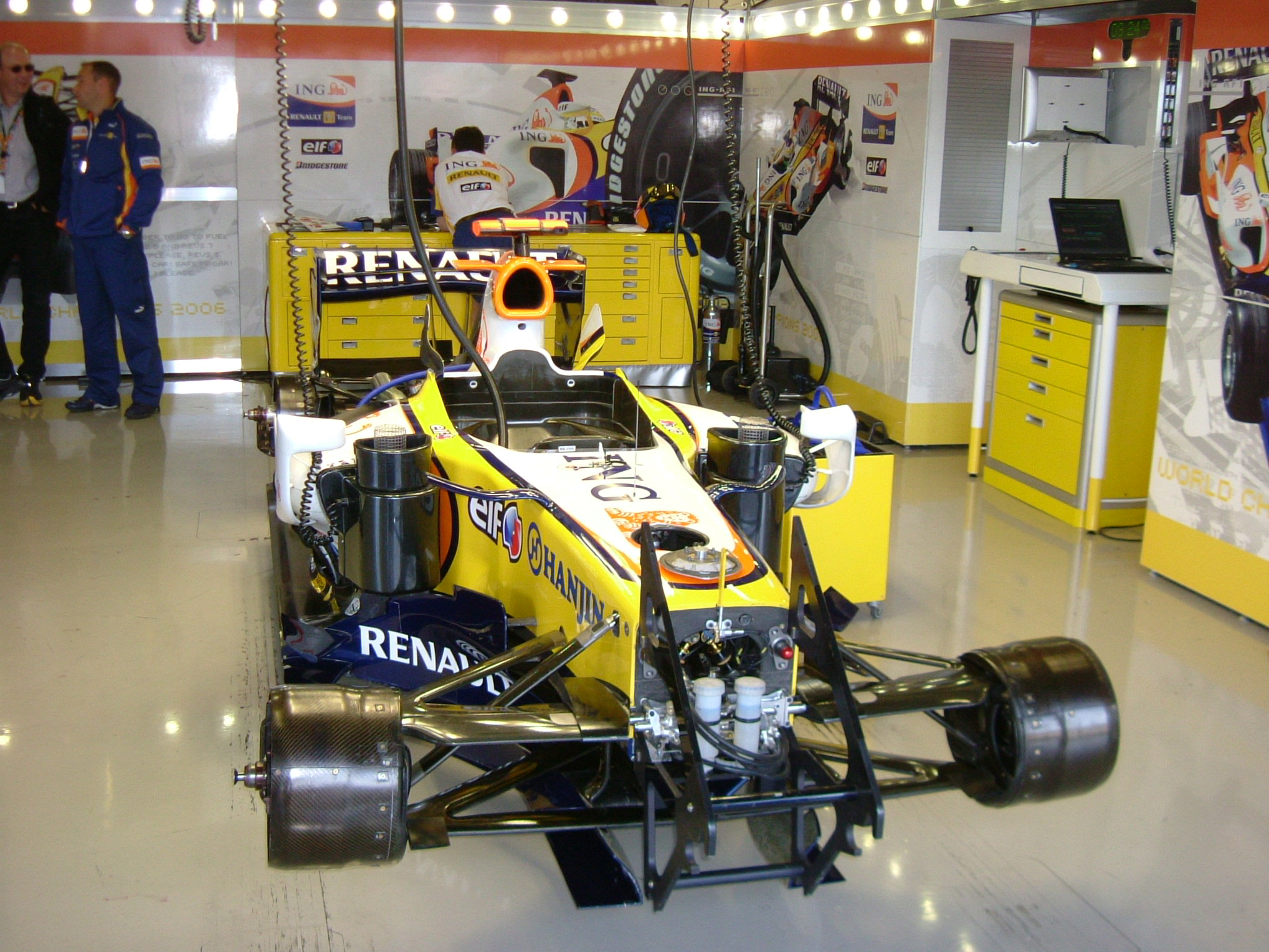 Giancarlo Fisichella's Renault R27 in the Pit Garage being prepared for the 2007 British Grand Prix